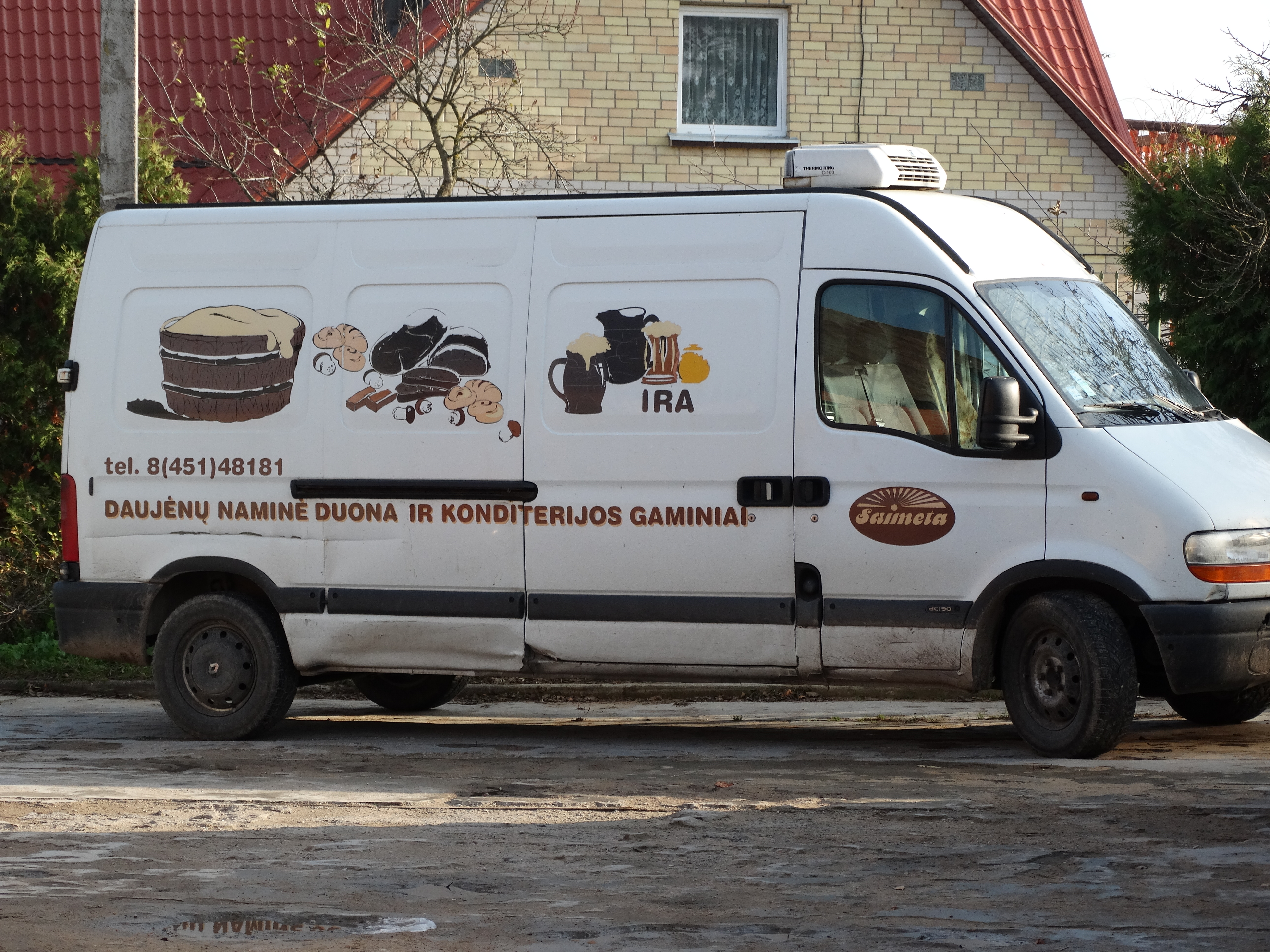 Van of transporting Daujėnai homemade bread, Pasvalys District, Lithuania